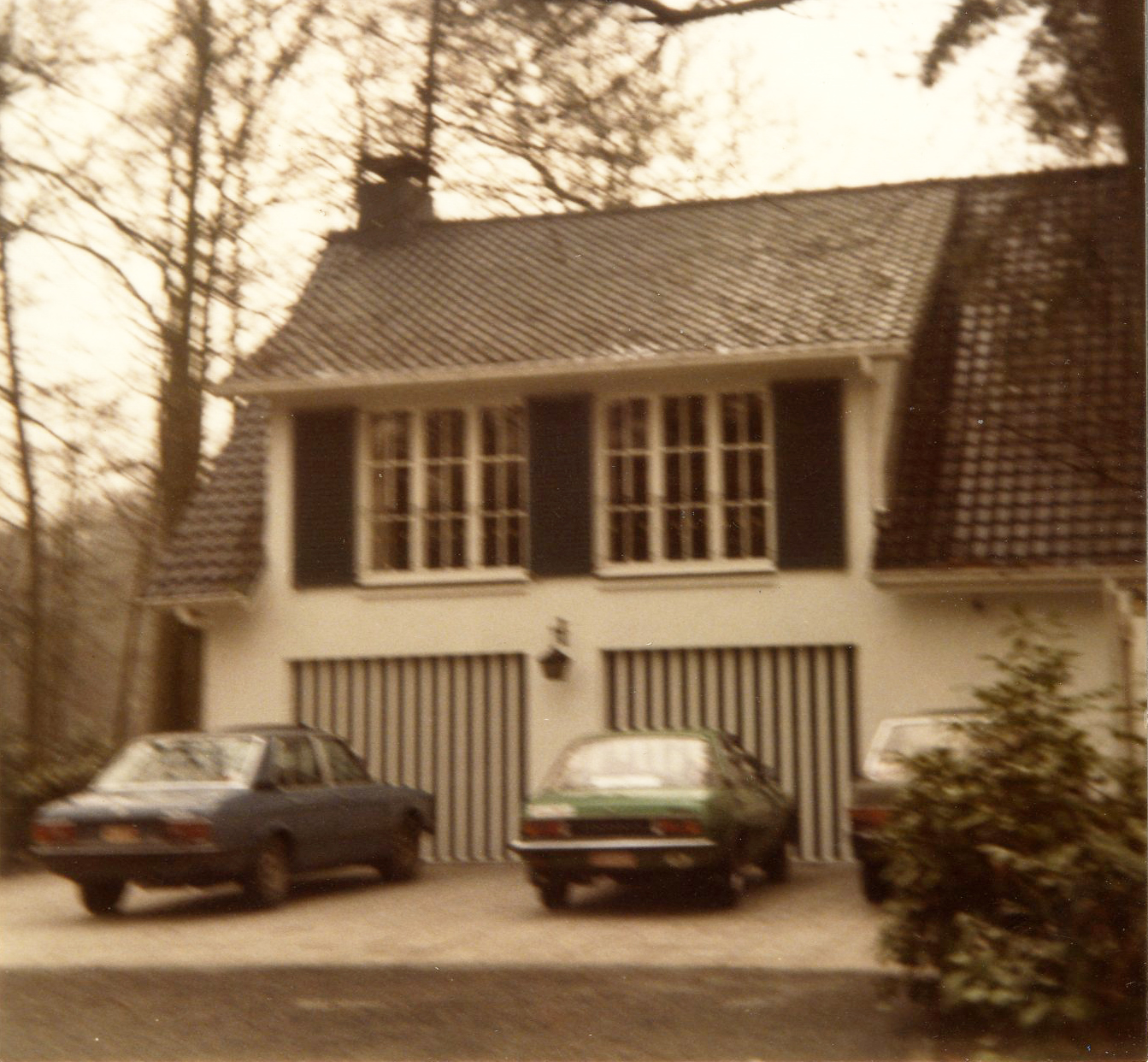 Studio Vandersteen (Belgium)